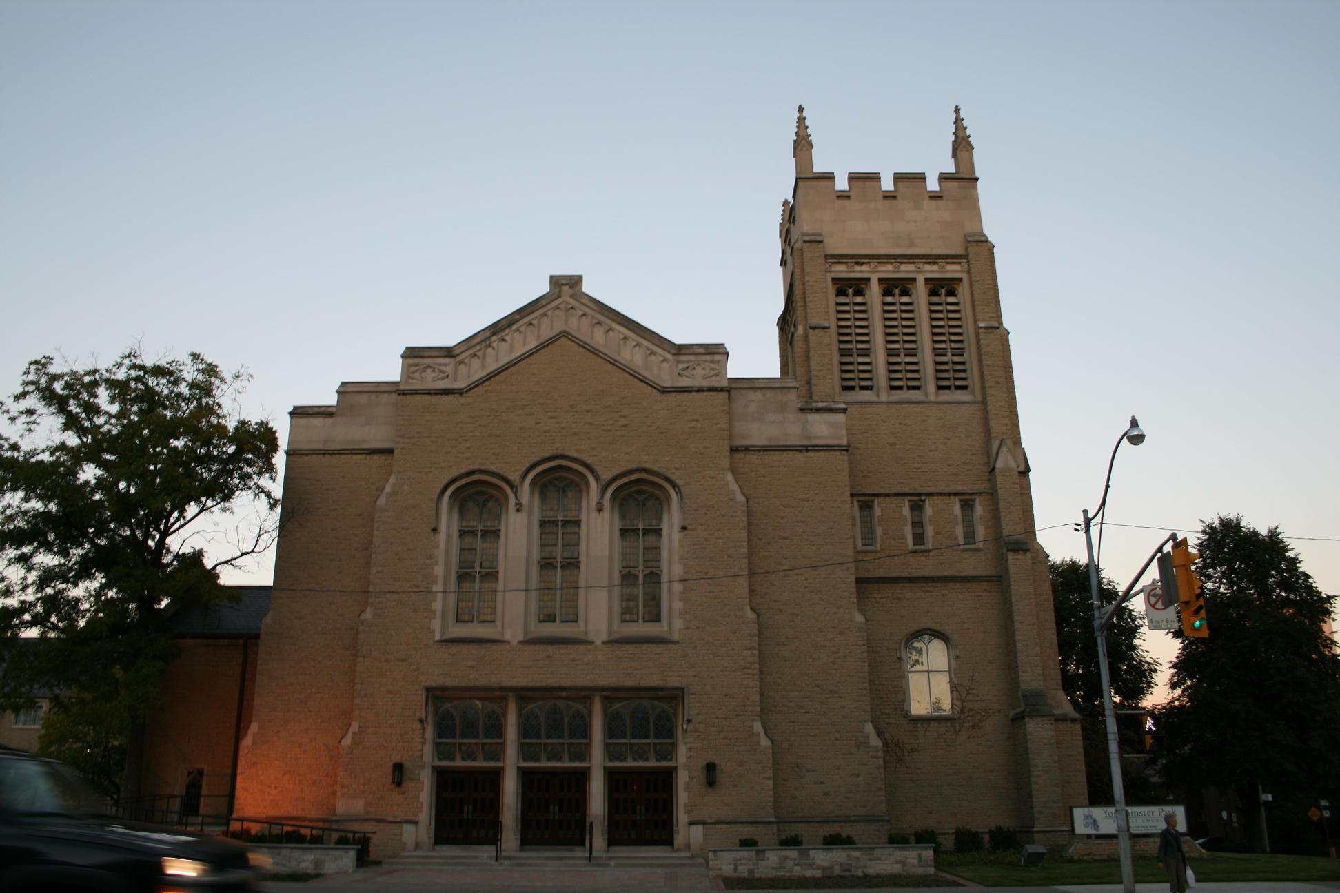 Yorkminster Park Baptist Church (Toronto)